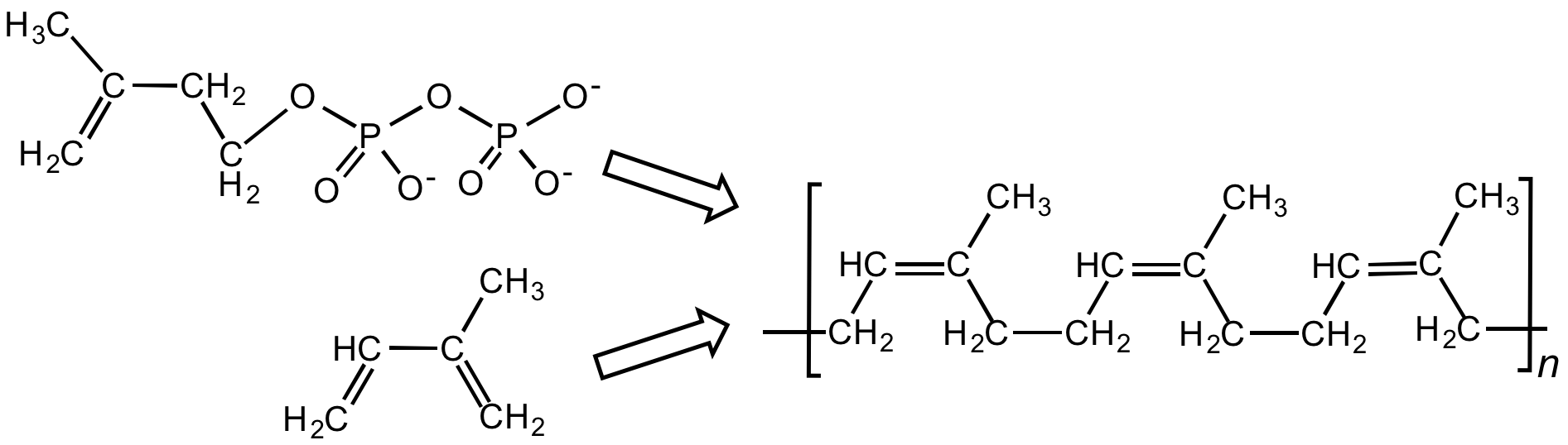 corrected image showing natural and synthetic precursors to polyisoprene (rubber)